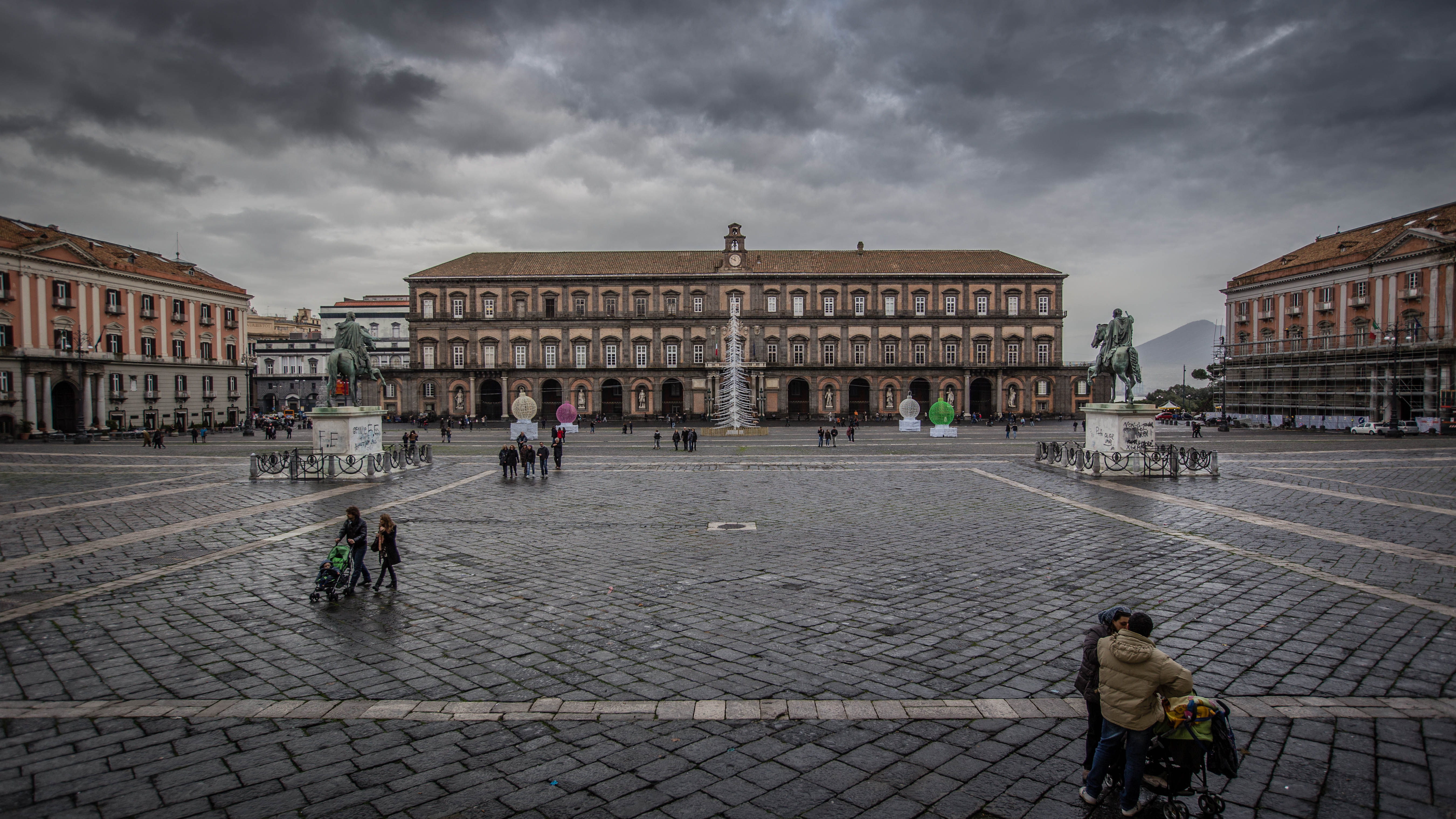 Piazza del Plebiscito, Napoli, ITA